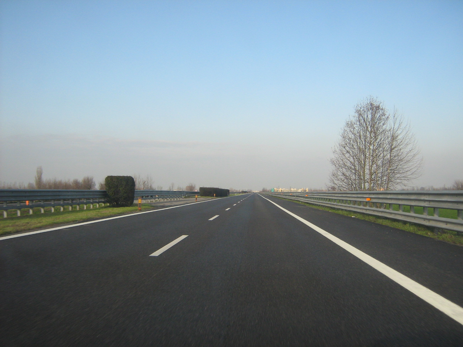 L'autostrada A21 in direzione Brescia.